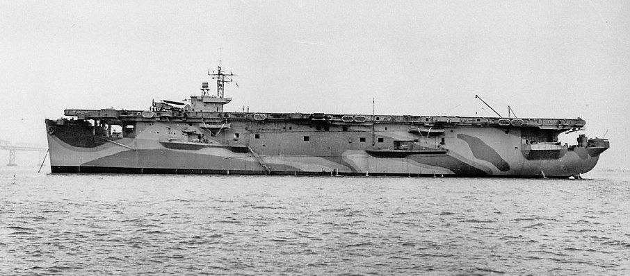 Description: HMS Attacker (D02) at anchor in San Francisco Bay on 13 November 1942. A Fairey Swordfish biplane of 842 Squadron RAF can be seen on the flight deck just ahead of the superstructure. US Navy photo #7043-42. Source: Navsource Online.